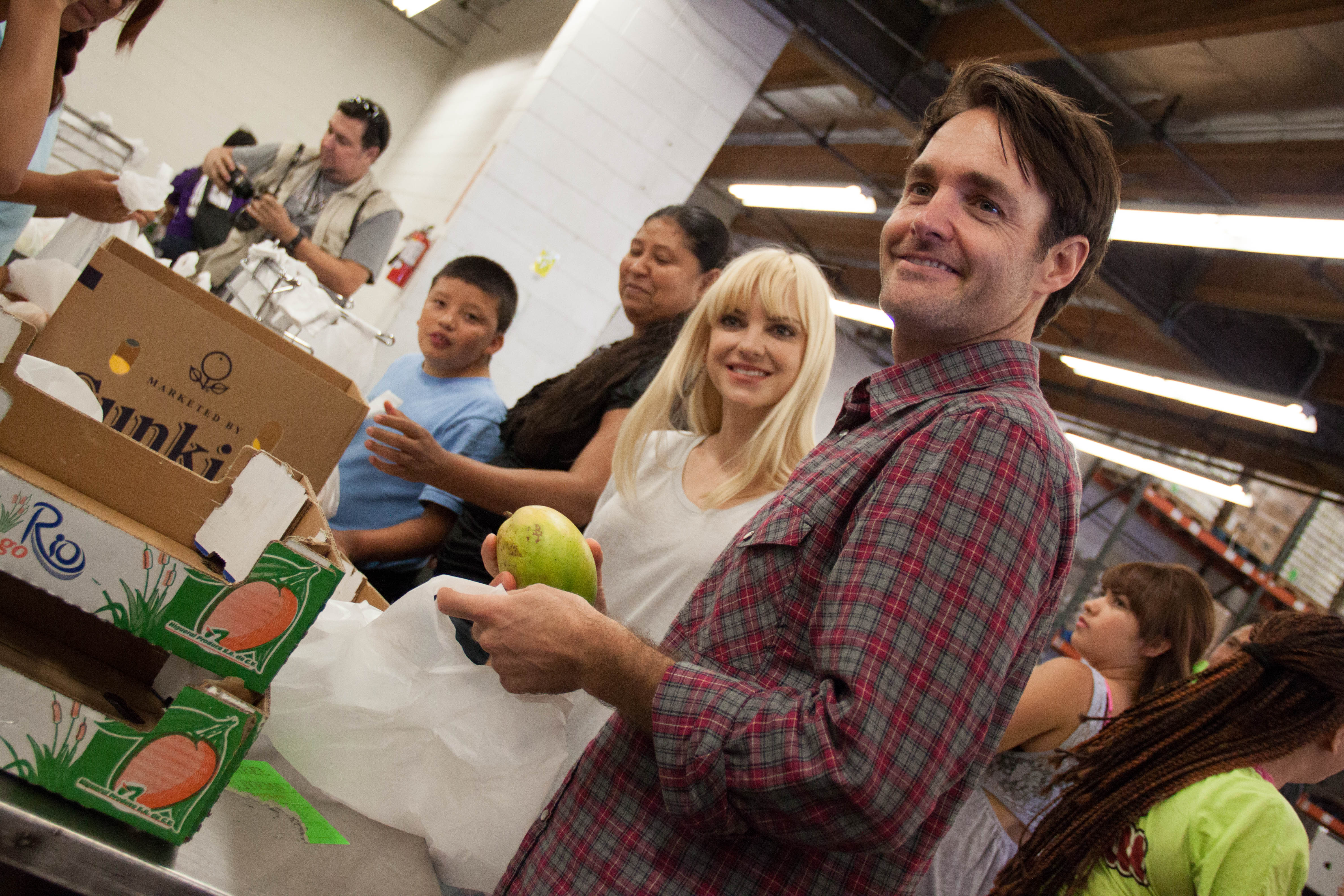 Casts Anna Faris and Will Forte from the movie "Cloudy With A Chance Of Meatballs 2" joined 100 children from YMCA volunteered at the L.A. Regional Food Bank helping load and sort combined 80,000 pounds of food in response to Feed America's Hunger Action Month. Photo by Xizi (Cecilia) Hua.